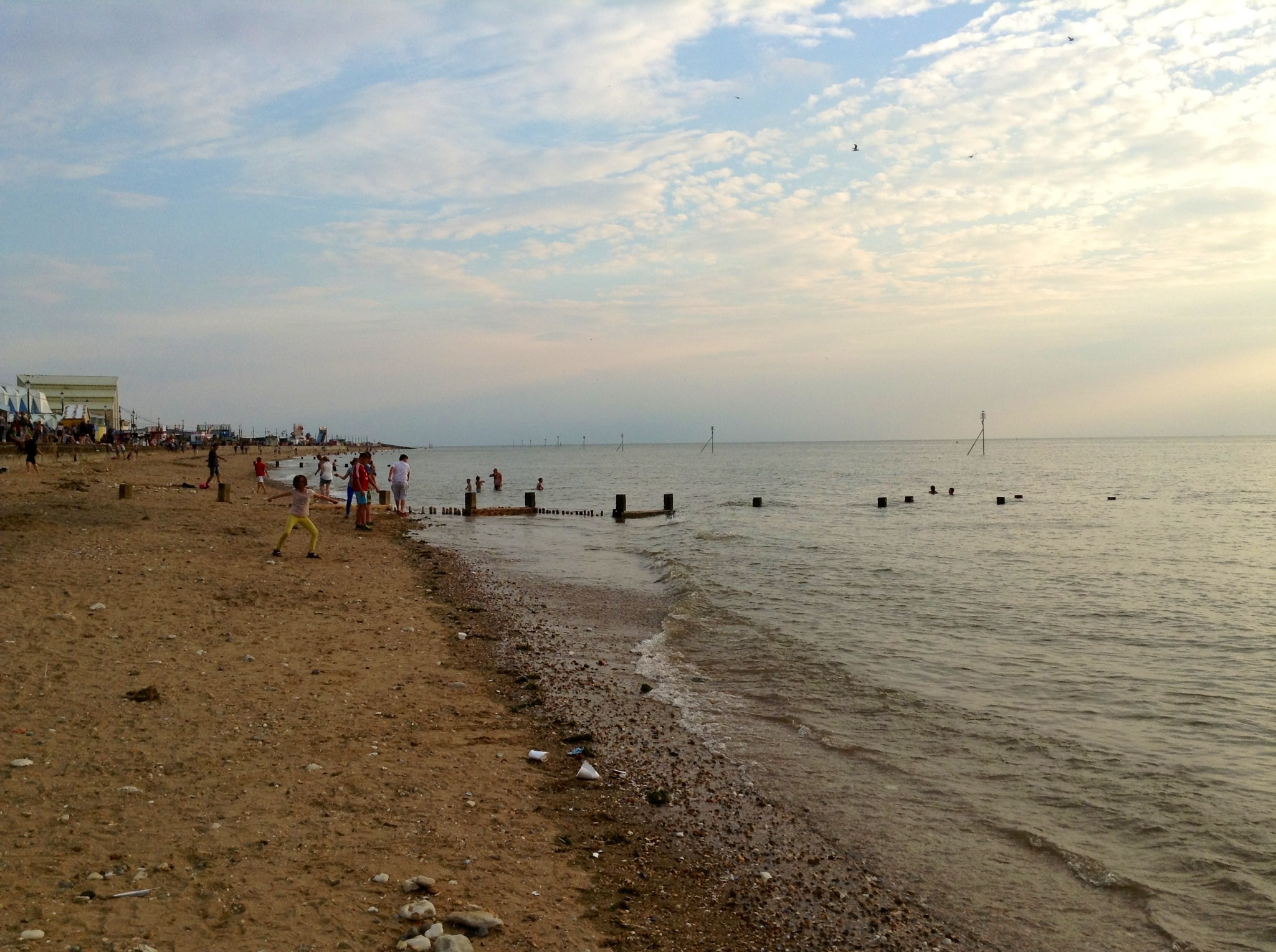 Hunstanton Beach at Dusk on Thursday 8th August 2013